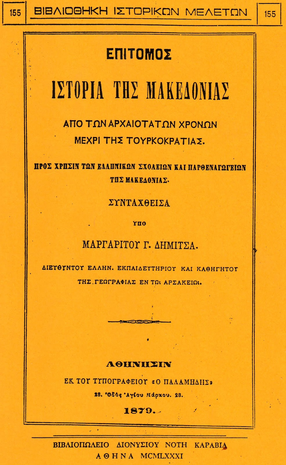 Margaritis Dimitsas History of Macedonia